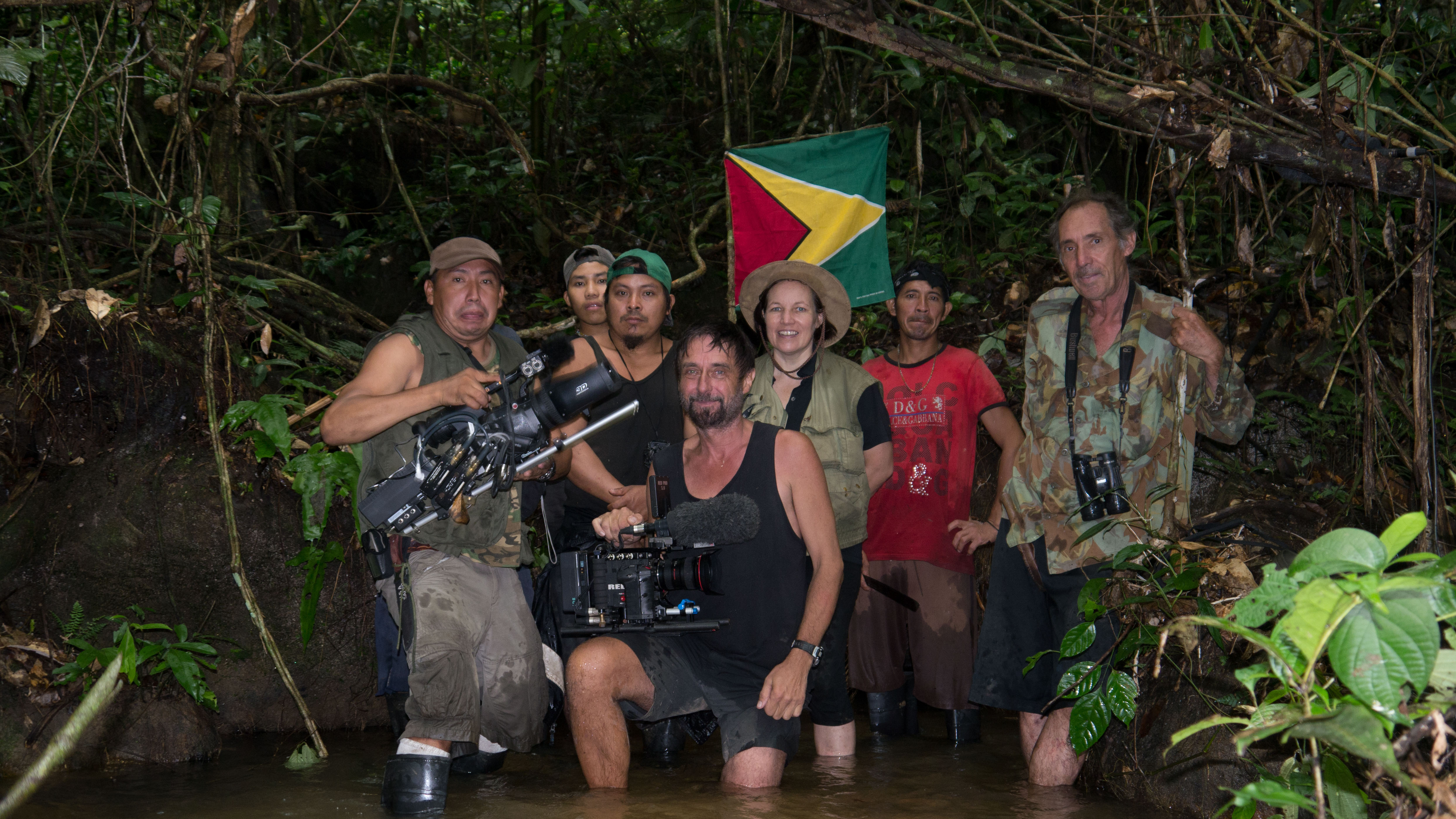 The expedition team at the source of Sipu river, one of three headwater streams of the Essequibo river.